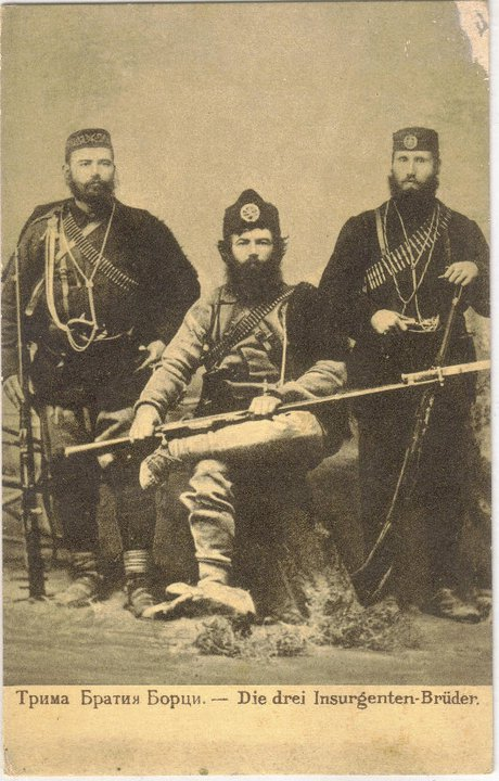 Picture of IMARO members Cvetko Hristov, Doychin Hristov and Tase Hristov